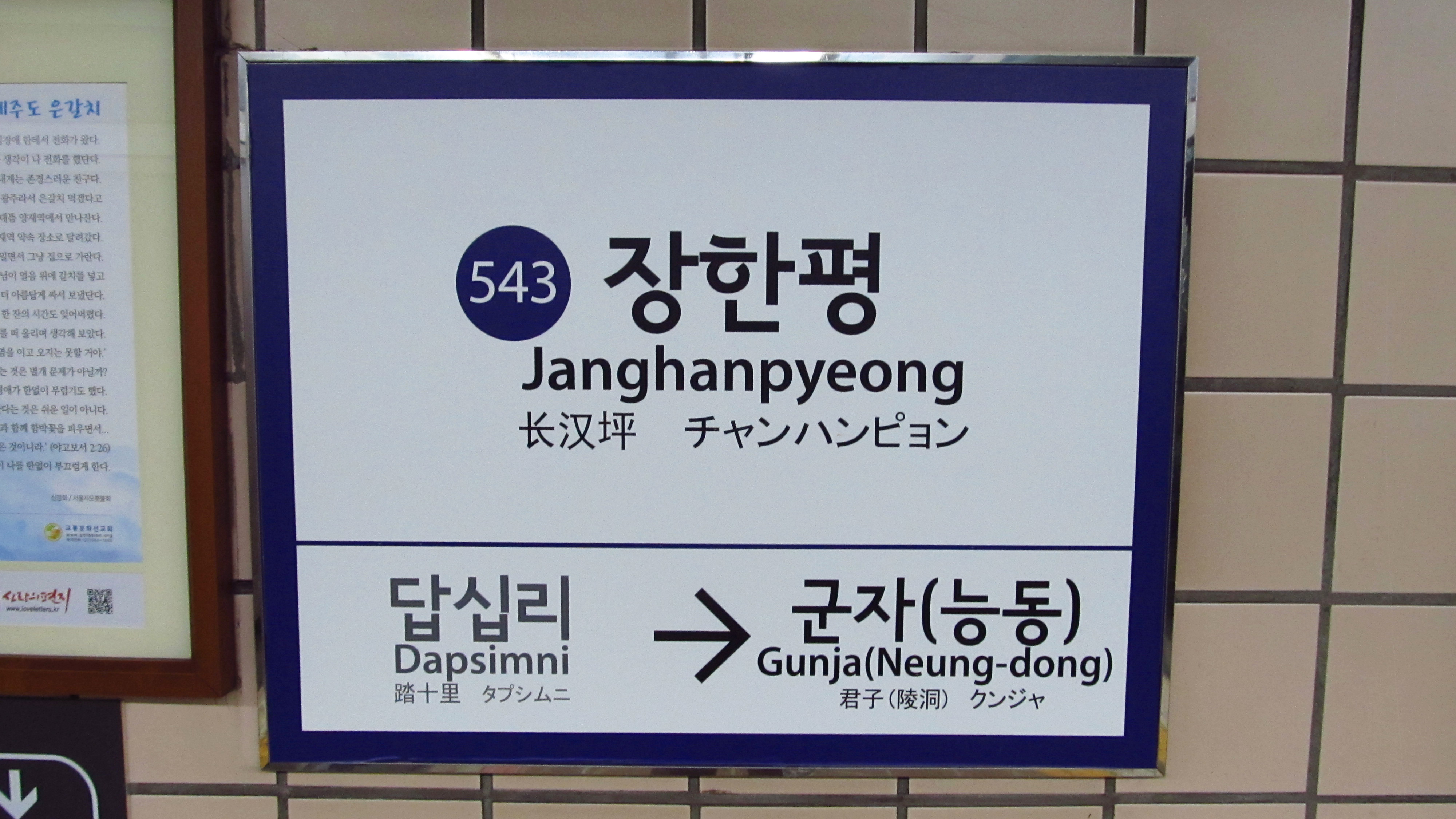 A sign of Janghanpyeong Station on Seoul Subway Line 5